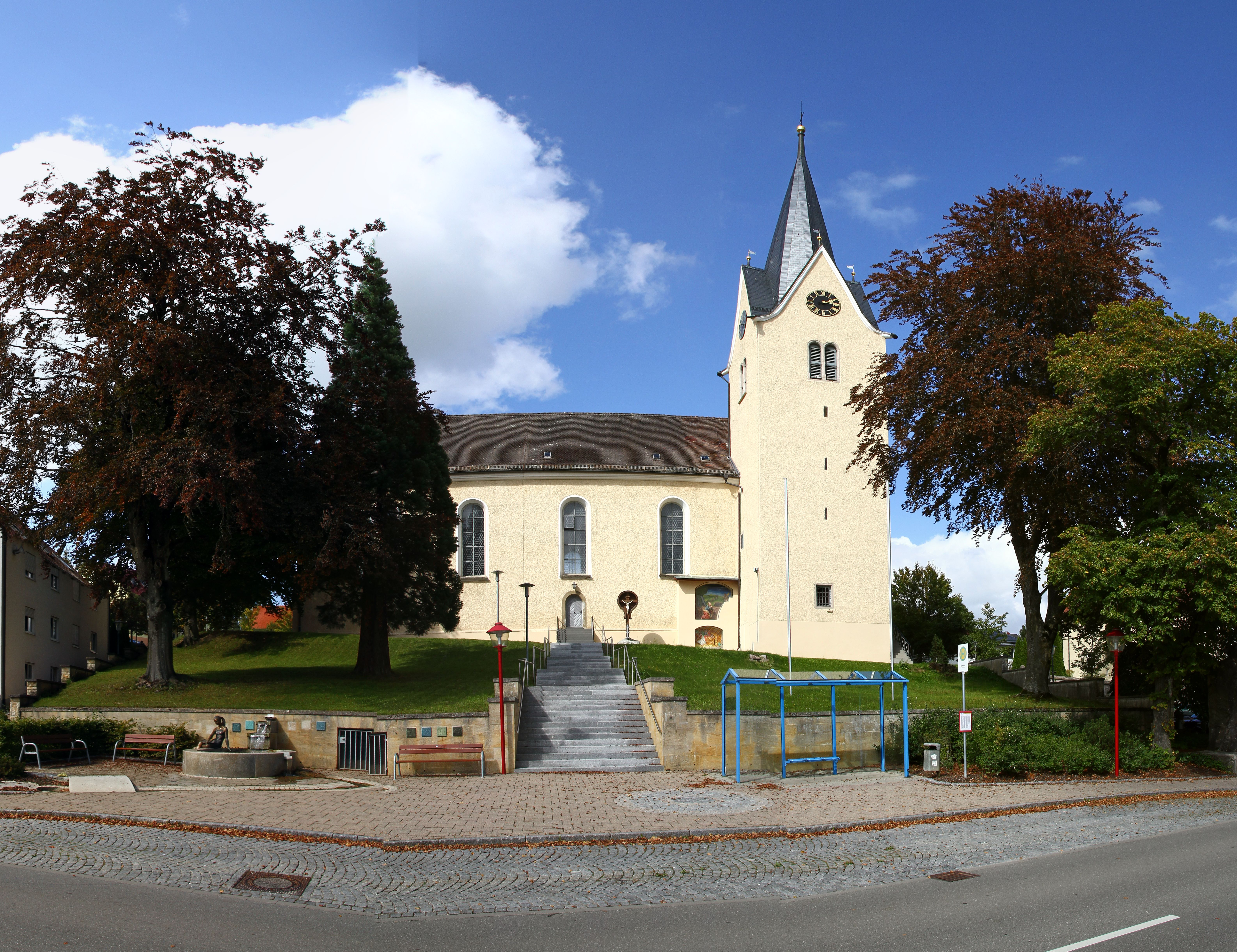 Catholic Church St. Michael